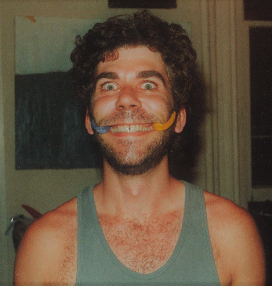 This is photo by Dick Turner of his friend Daniel Carney wearing The Smile Machine which was taken in Baltimore, Maryland, USA in 1994.